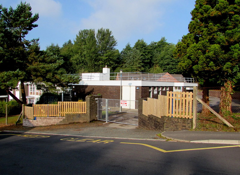 Former Blaenavon Health Centre